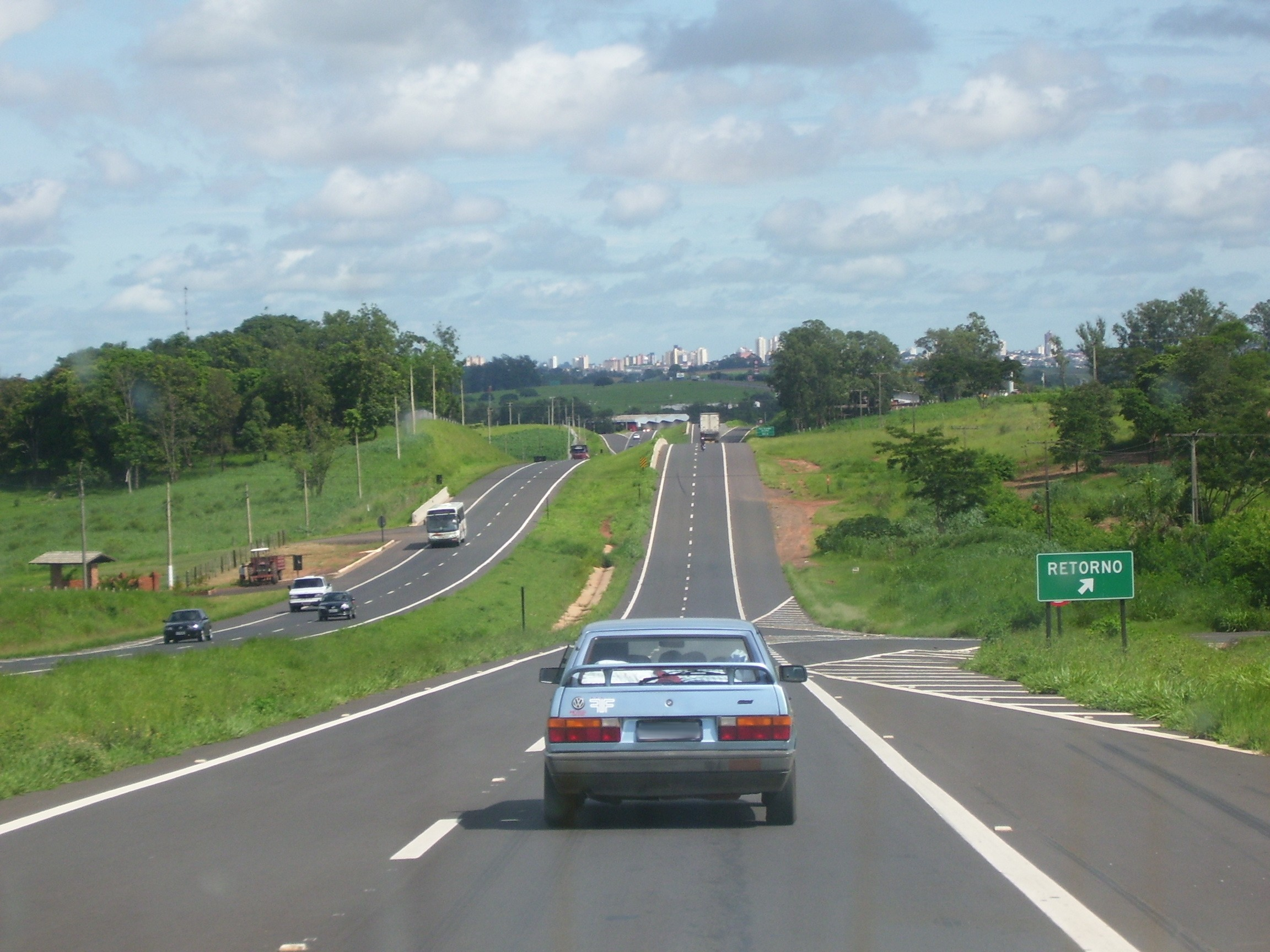 Rodovia Raposo Tavares (officialy SP-270), a highway in the Brazilian state of São Paulo. This section is located on the outskirts of Presidente Prudente (viewed on the upper side of the picture).